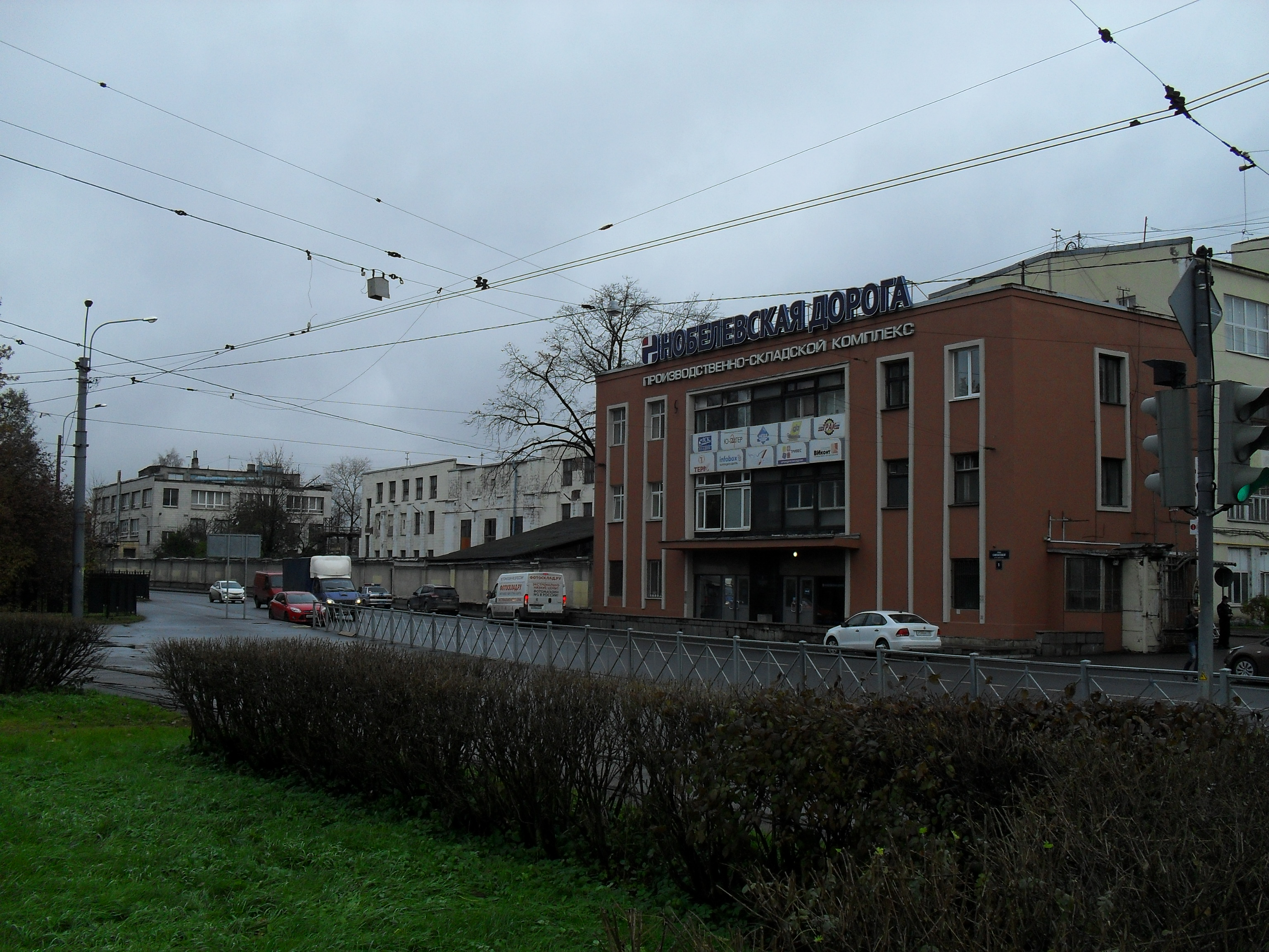 "Nobelevskaya Doroga" ("Nobel Road") storehouse in Saint Petersburg near Nobel Road aka Oil Road